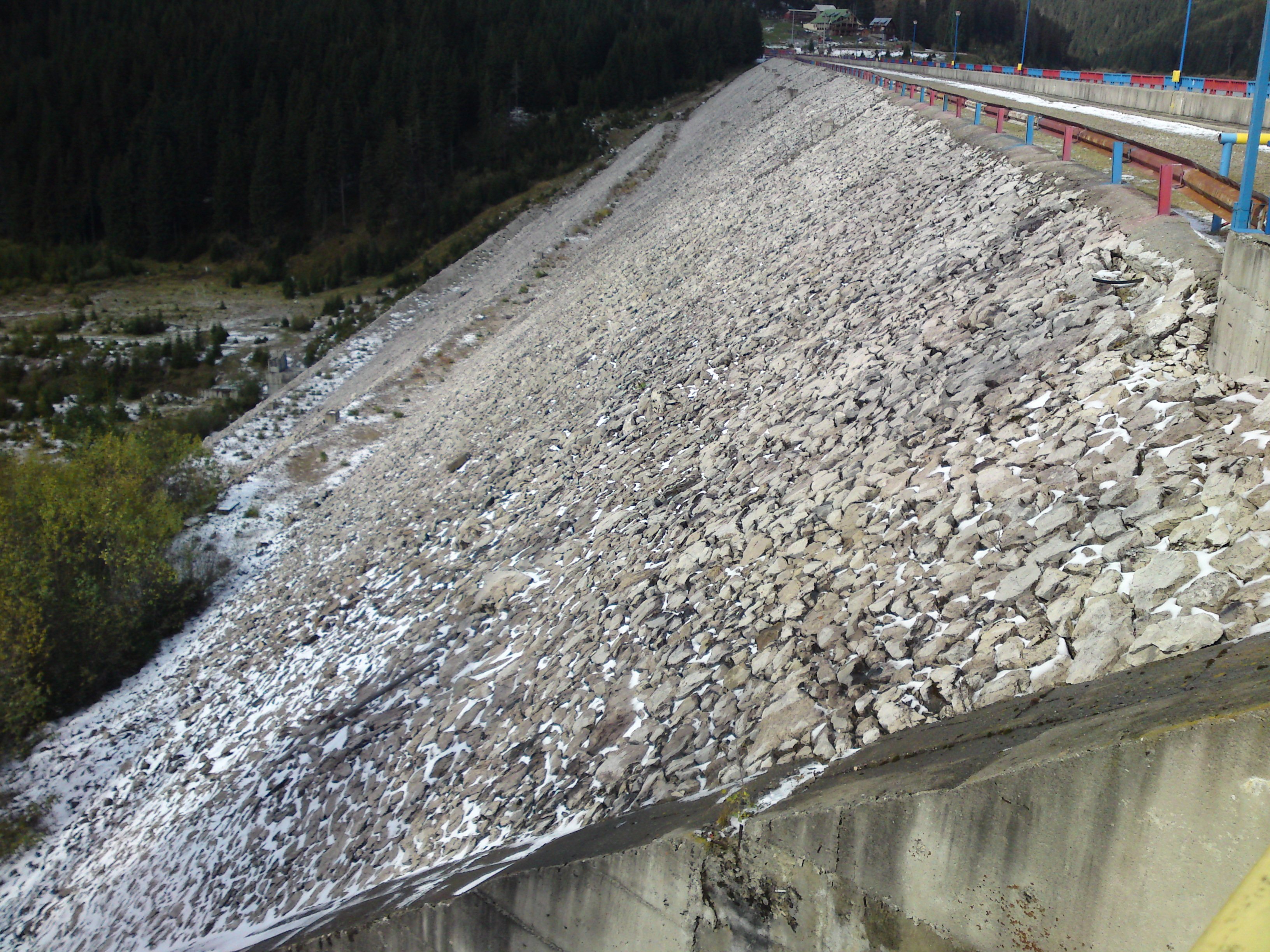 View of the rock-fill Bolboci dam in Romania, on the Ialomița river.